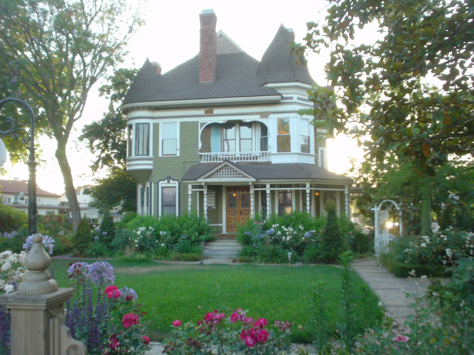 Historical Victoria Mansion in Riverside, California